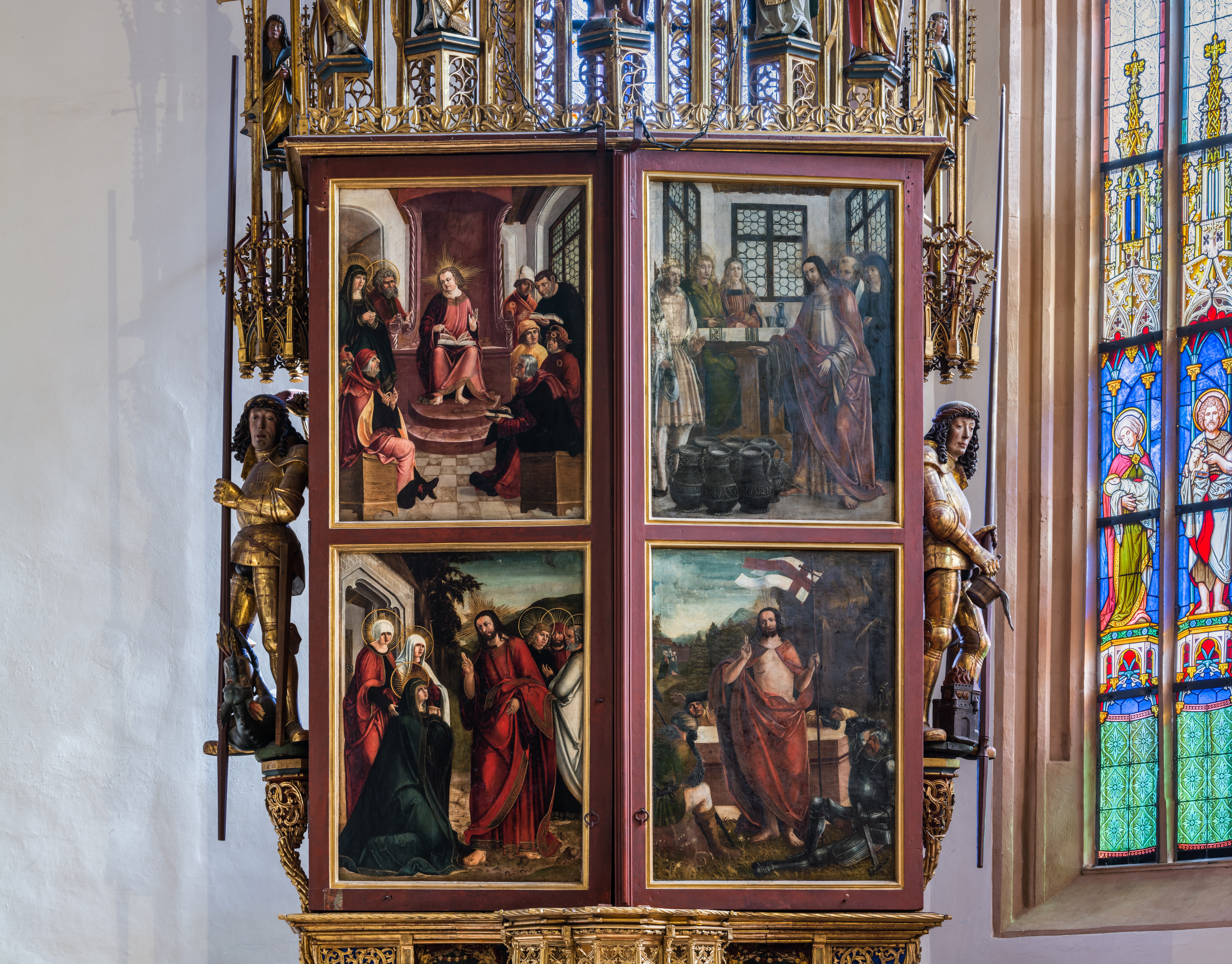 Altar of Our Lady at the Catholic parish church Hallstatt, Upper Austria. View for weekdays with closed wings. Lienhart Astl (signed), 1510–1520.